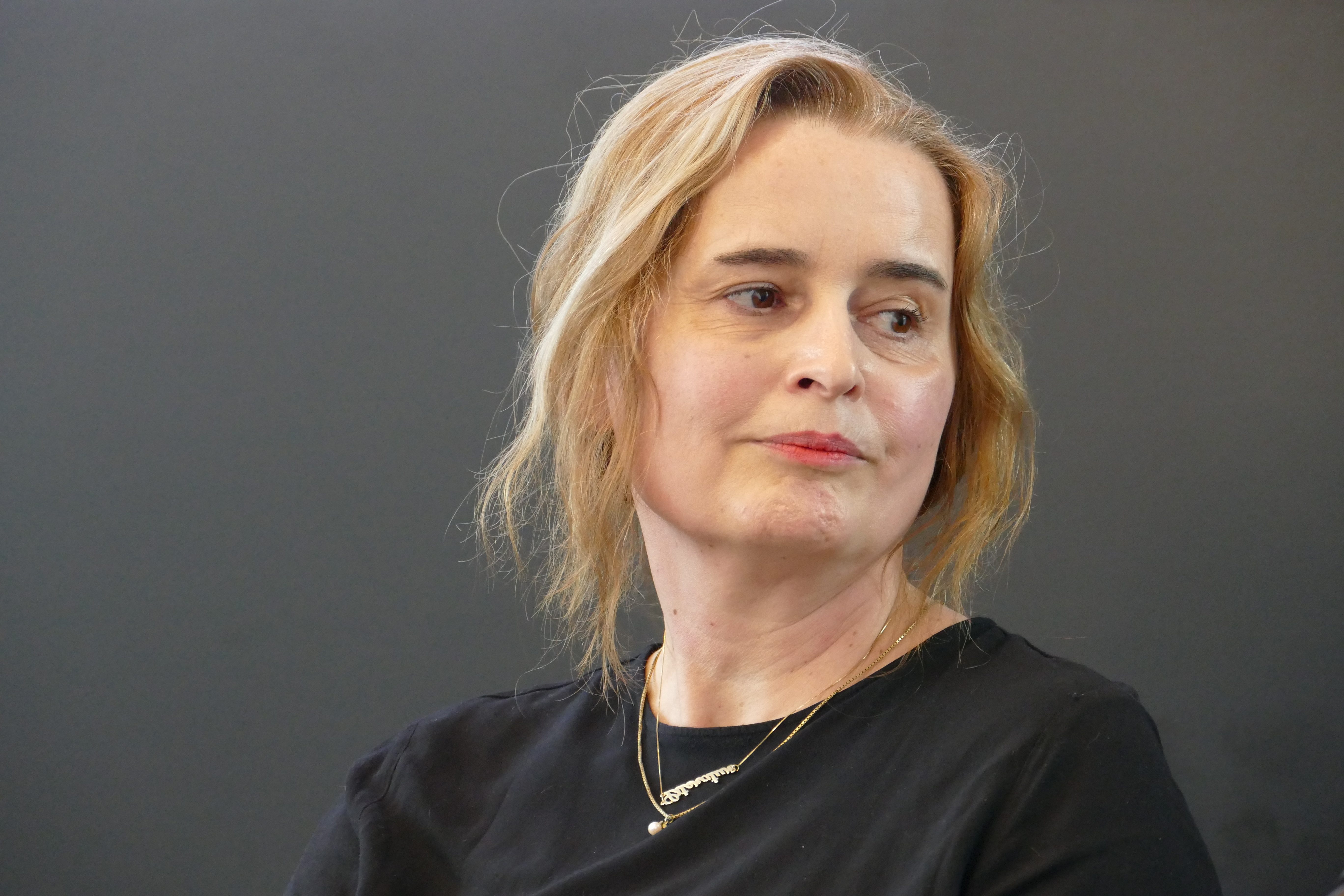 Publisher and writer Christiane Frohmann at a panel at the event Fokus Lyrik 2019 in Frankfurt